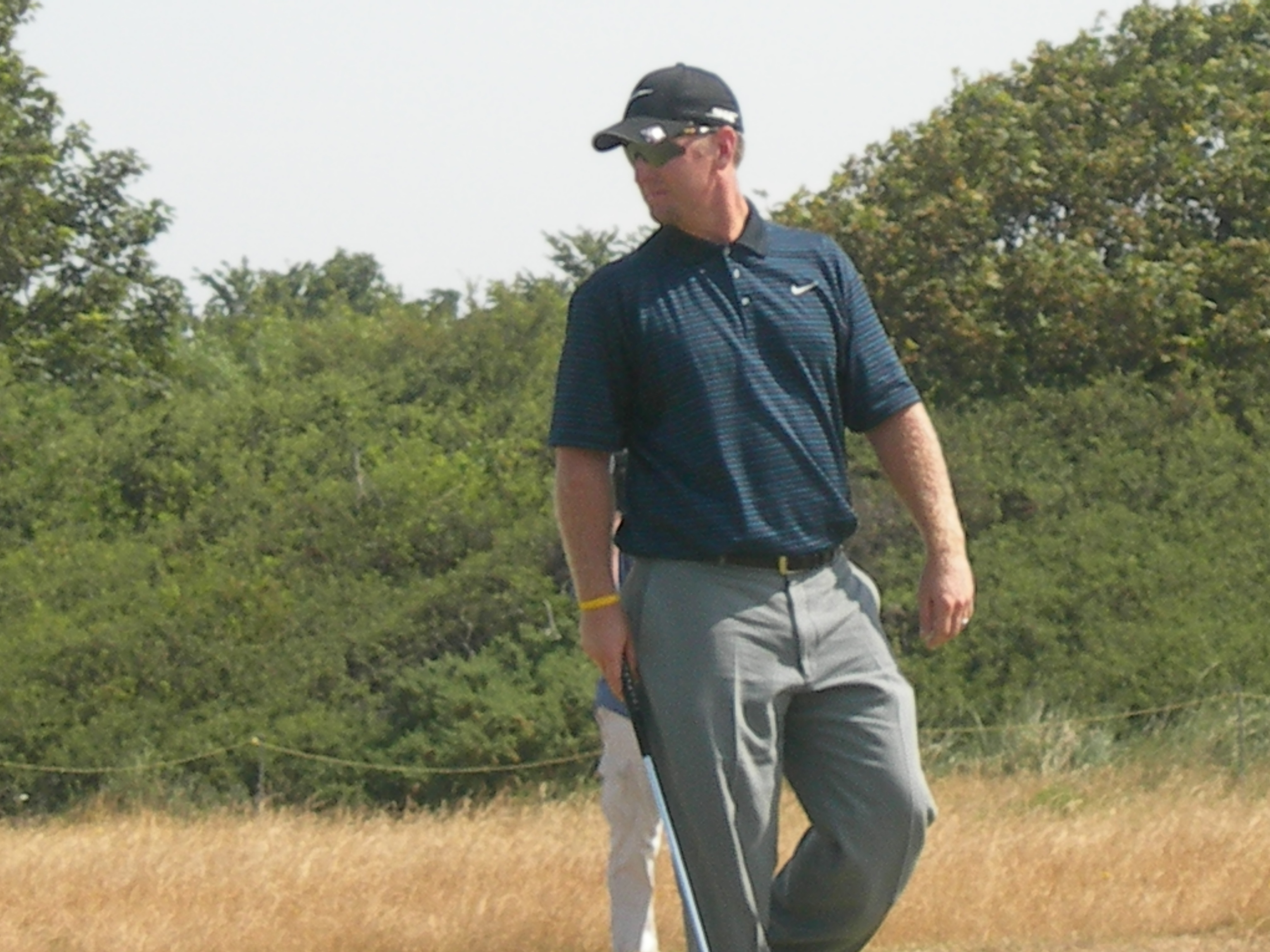 David Duval at the 2006 Open Championship